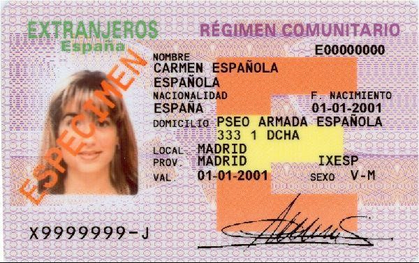 Residence card for a family member of a European Union citizen; evidence for a third-country national who is a family member of a citizen of the EU, or of Iceland, Norway or Liechtenstein, of the right to move and reside freely within the territory of the Member States.